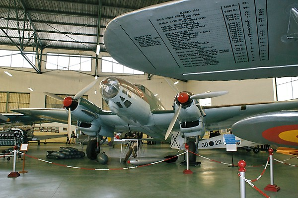 Front view of the Heinkel He111E-3, 4/10.